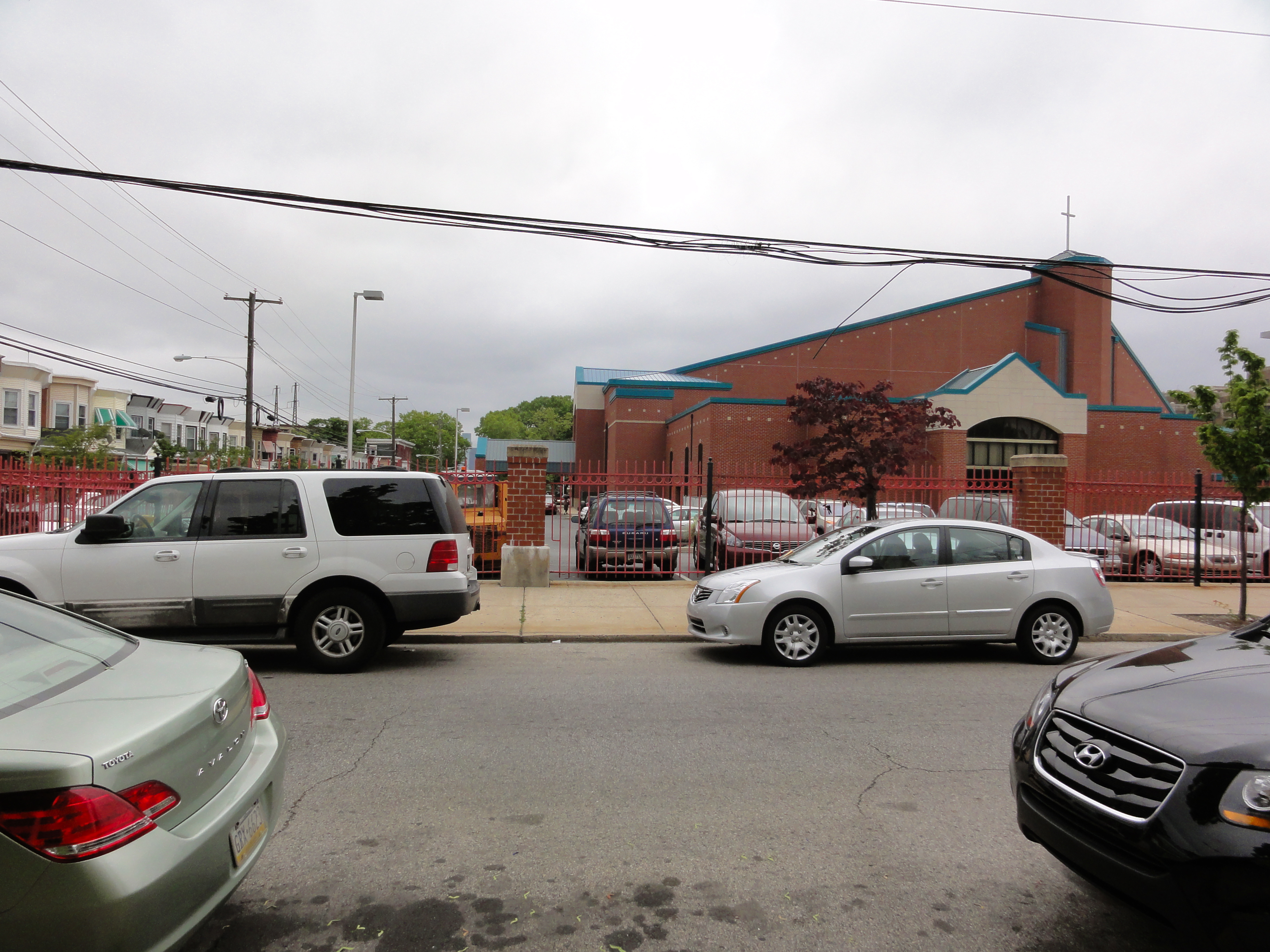 The Deliverance Evangelistic Church, the current site of Shibe Park, Philadelphia. Famous 20th street rooftop bleachers visible at left.